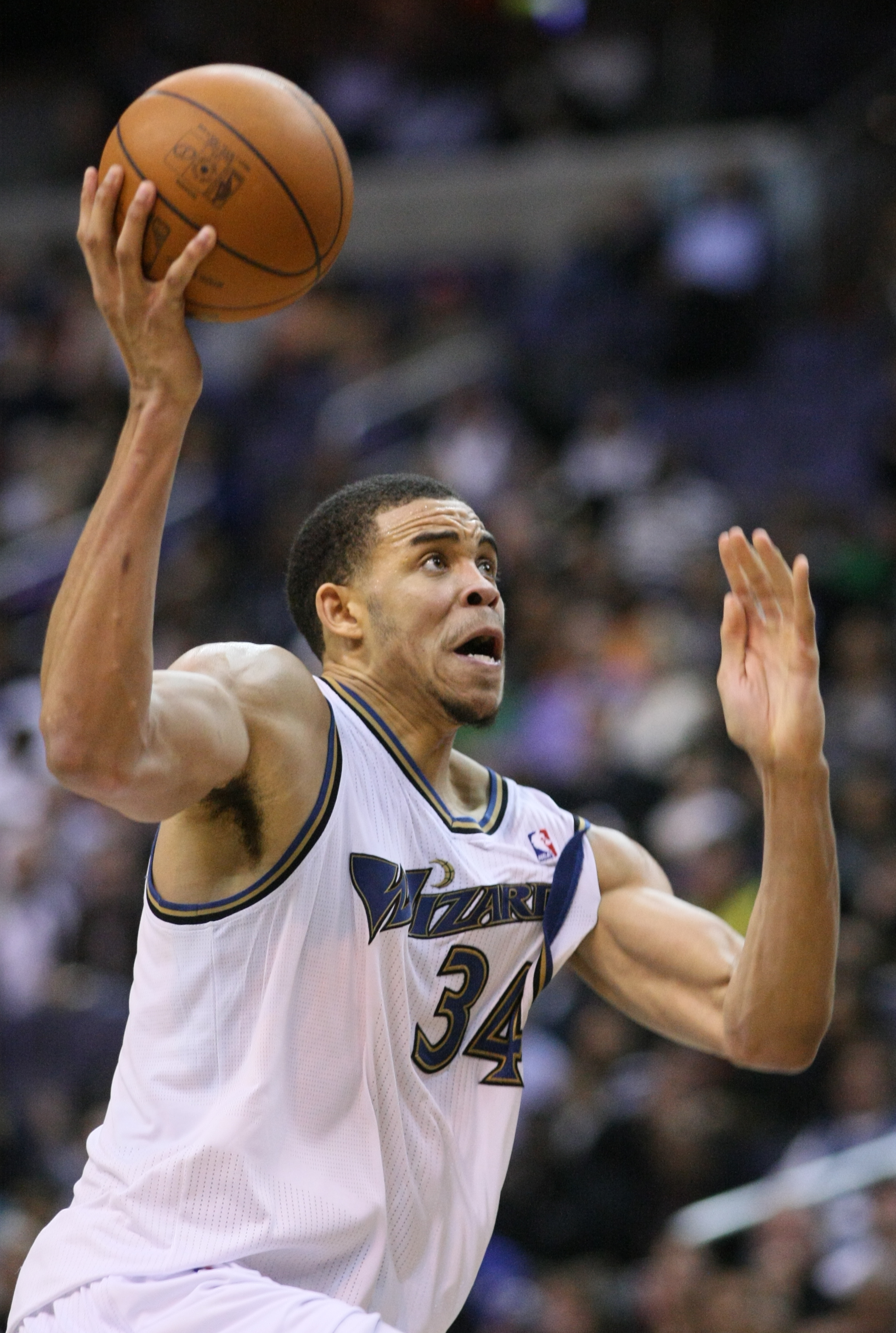 JaVale McGee in Washington Wizards v/s Philadelphia 76ers November 23, 2010